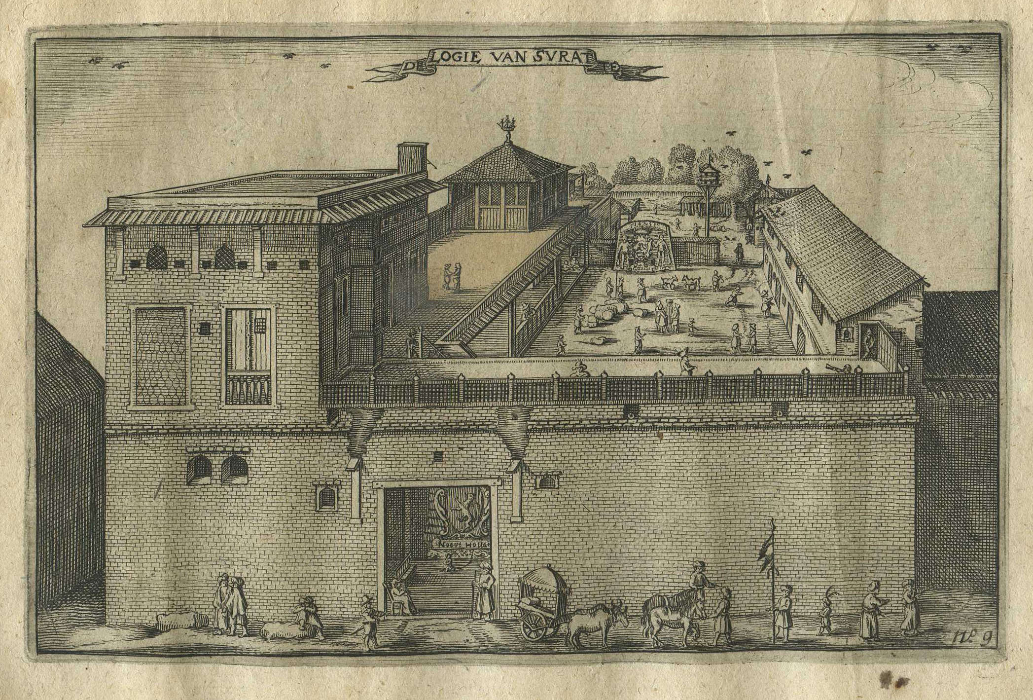 Plate 9, "Logie van Suratte", a view of the factory ("logie) of the Dutch East India Company (VOC) in Surat as seen in April 1629 by Pieter van den Broecke (1585-1640), a Dutch cloth merchant in the service of VOC. This copperplate engraving from 'Historische ende Iournaelsche Aentekeningh, van 't gene Pieter van den Broecke op sijne Reysen, soo van Cabo Verde, Angola, Gunea en Oost-Indien voorghevallen is.... (Pieter van den Broecke: Voyages to West Africa and Asia 1605-1630.), which was part of the monumental work by Isaac Commelin (1598-1676) on VOC voyages: 'Begin ende voortgangh van de Vereenighde Nederlantsche Geoctroyeerde Oost-Indische Companie....', was published by Joannes Janssonius, Amsterdam, 1646.